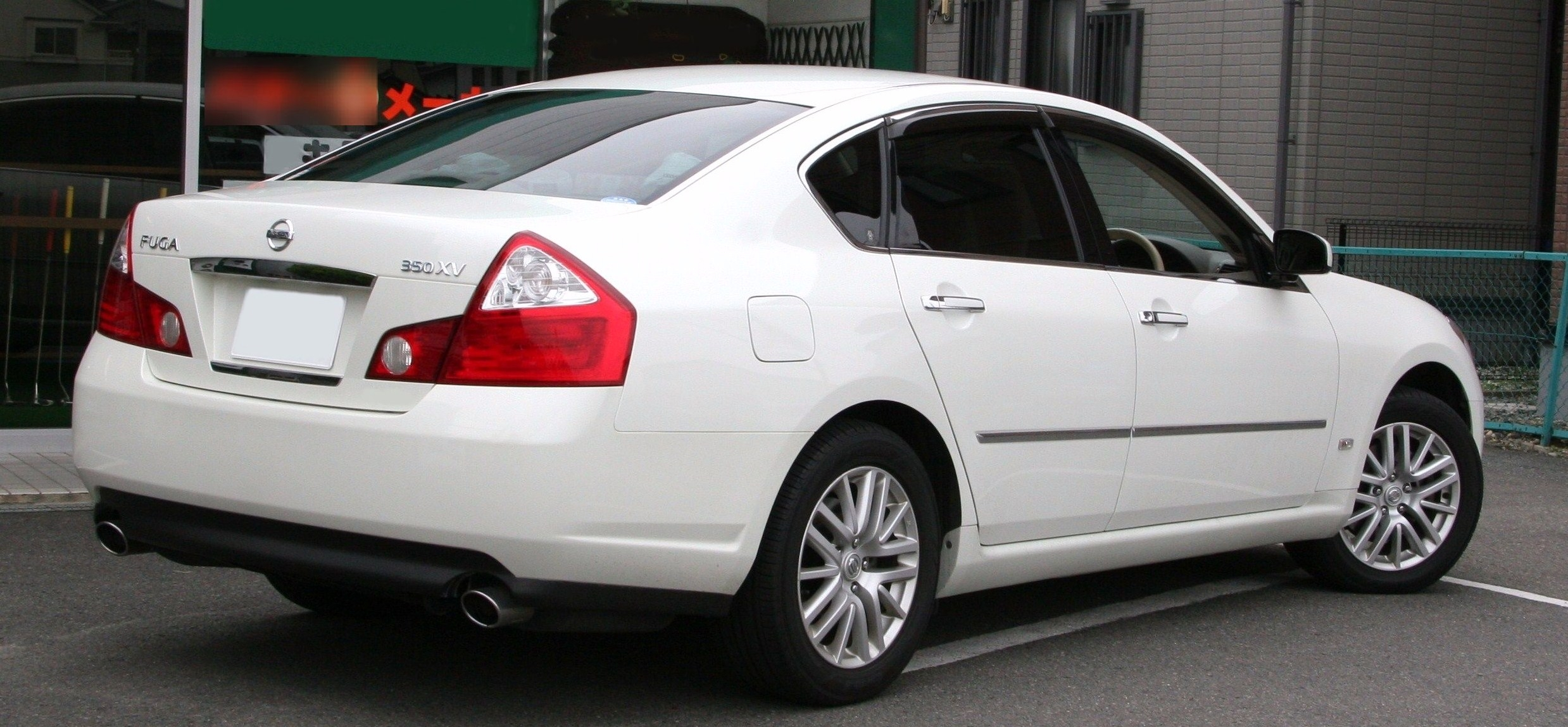 NISSAN FUGA